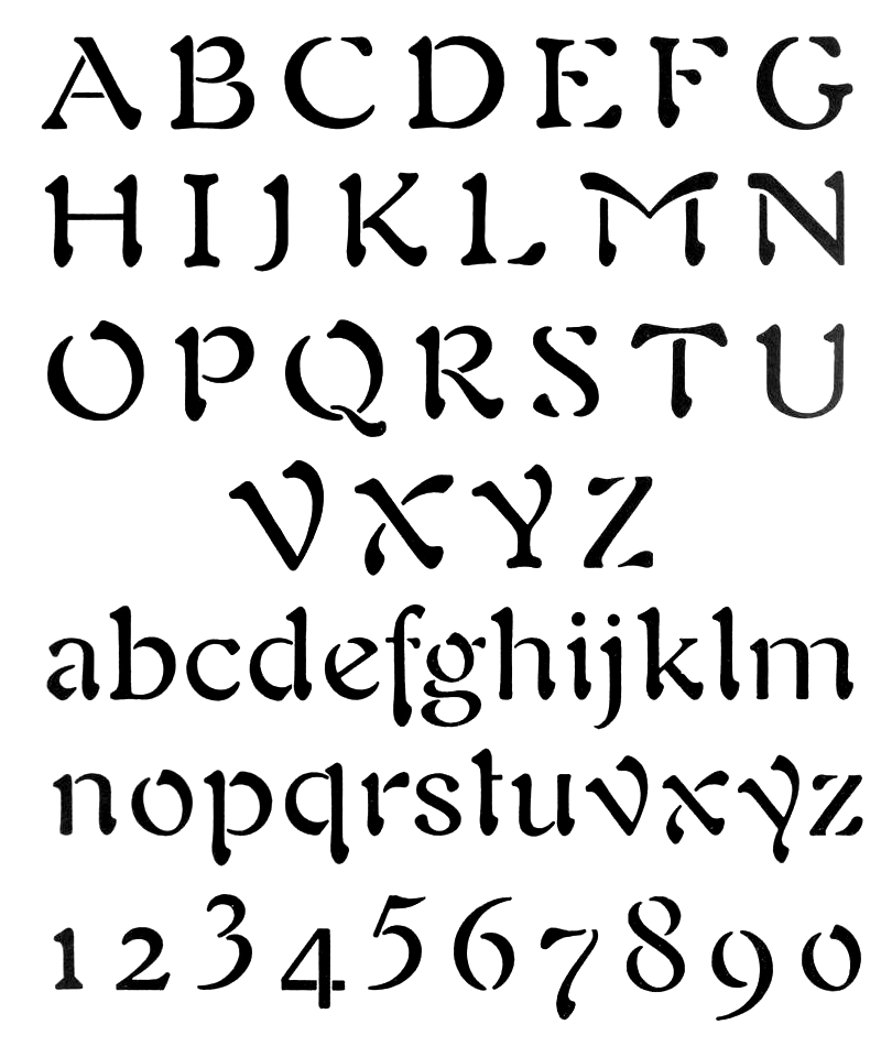 Auriol typeface specimen cropped from Thibaudeau 1924